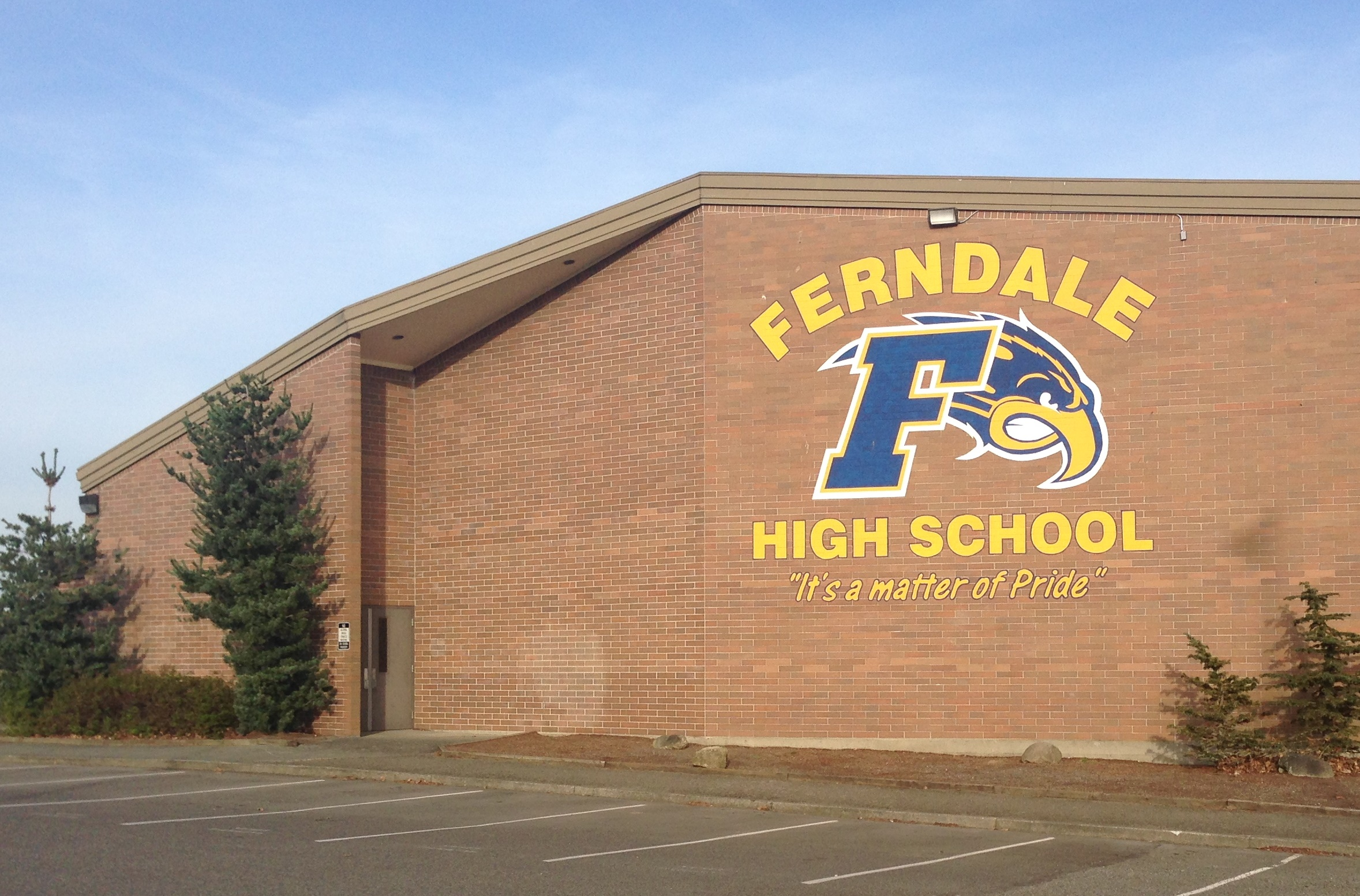 Ferndale High School, school gym building